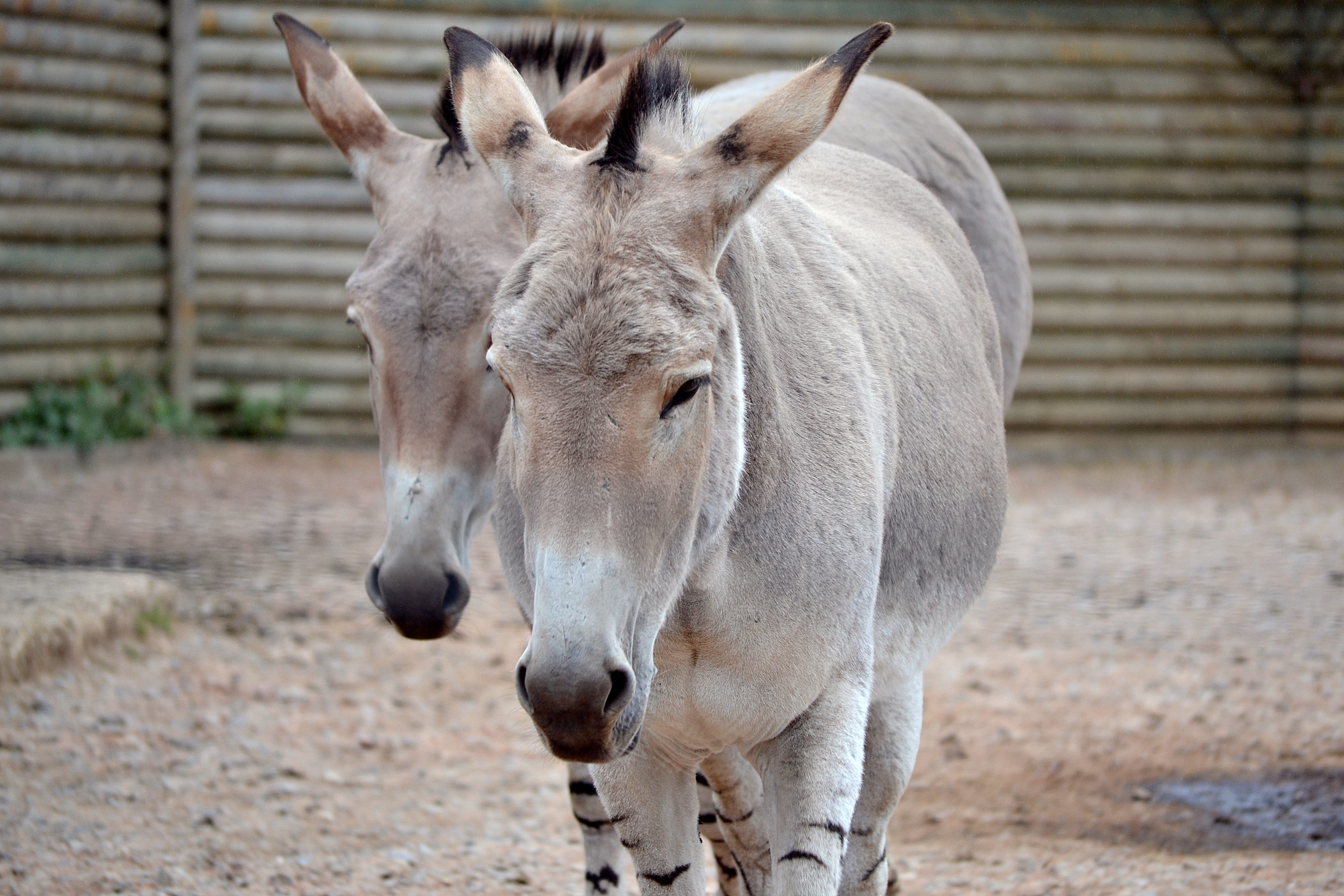 Two Somali Wild Ass (Equus africanus somaliensis) in Marwell Zoo, Hampshire, UK